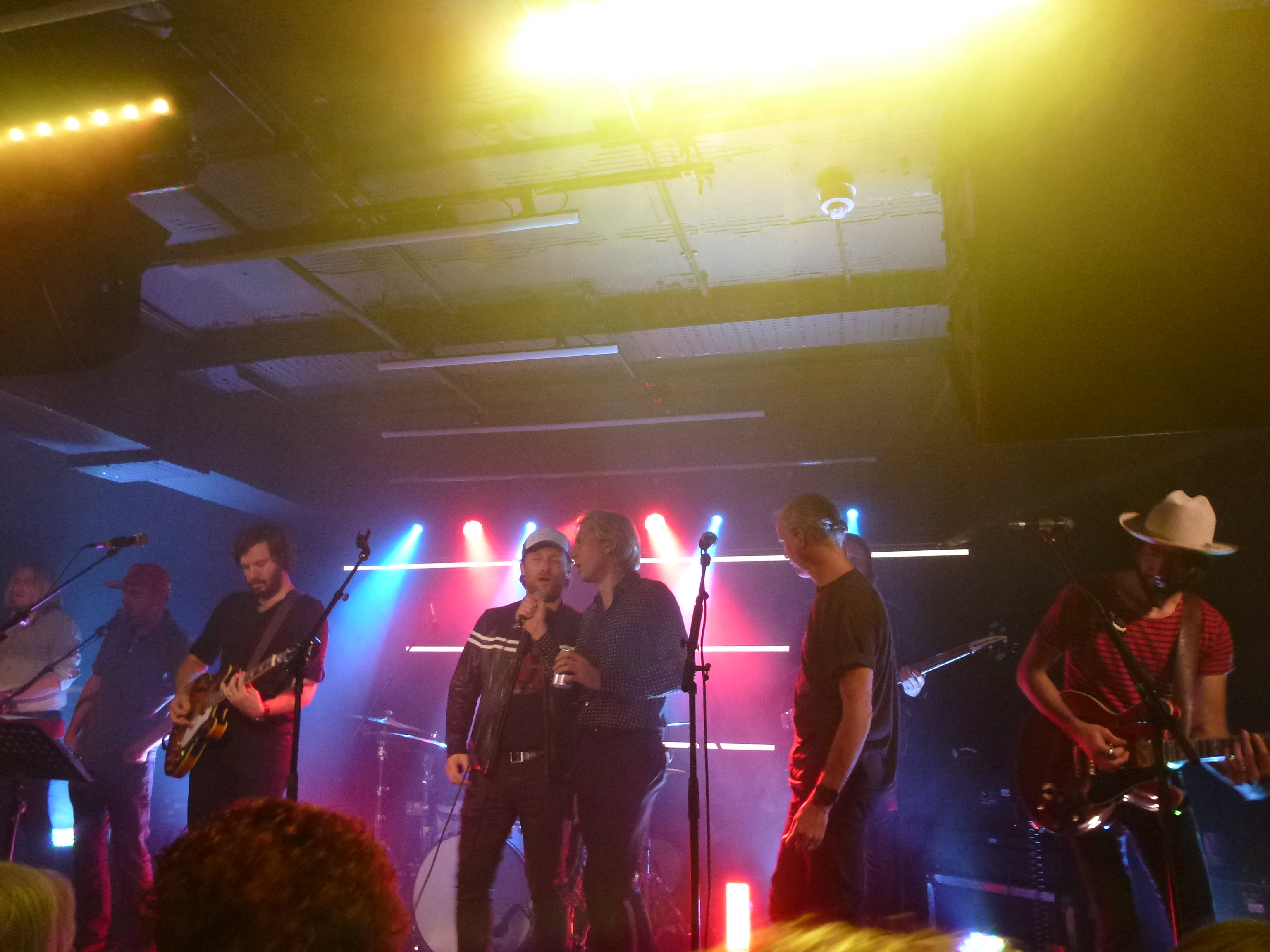 BNQT joined on stage by Mike Stills